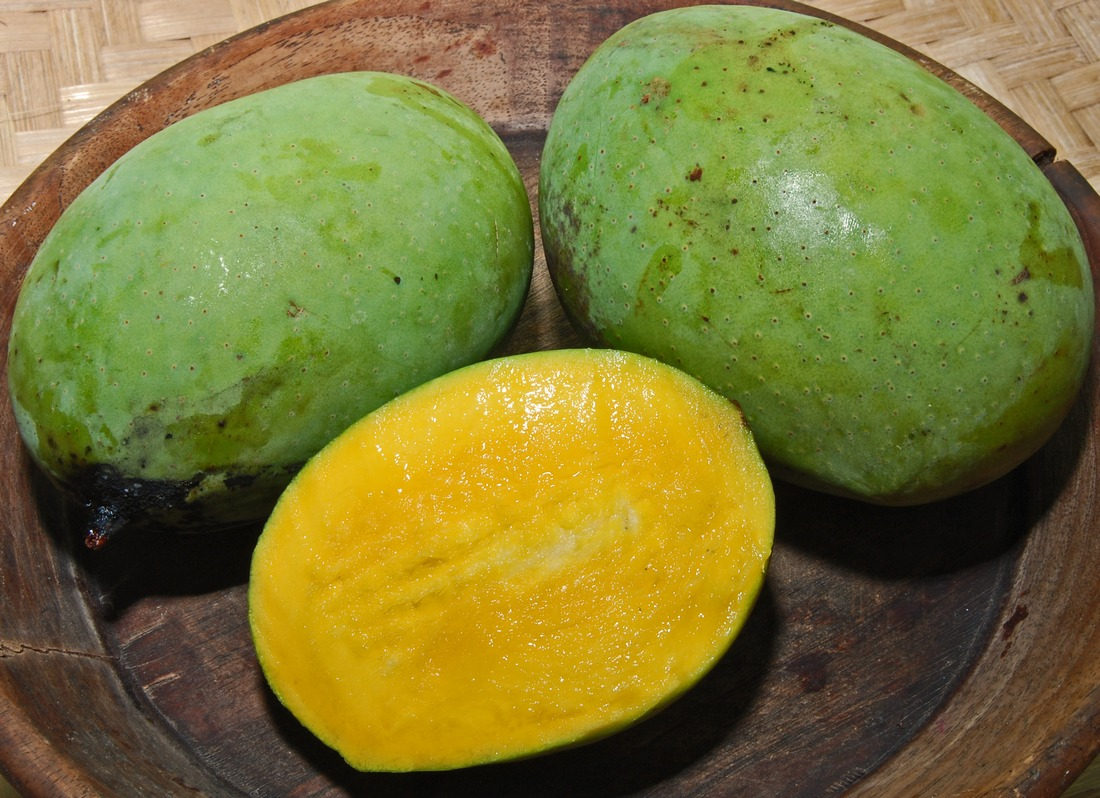 Mangifera odorata from Bogor, West Java, Indonesia